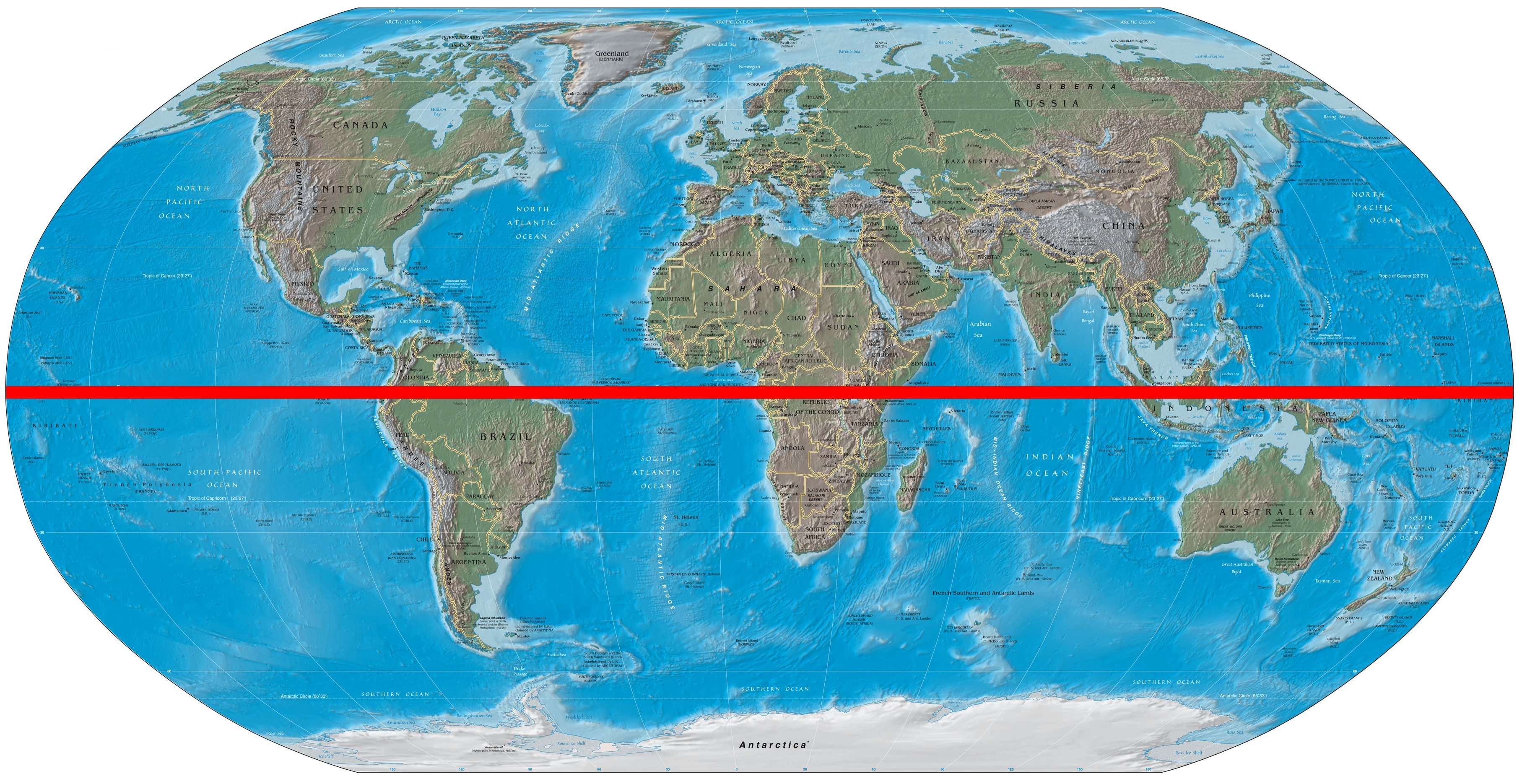 Based on public domain CIA World Fact book image with the Equator bolded in red